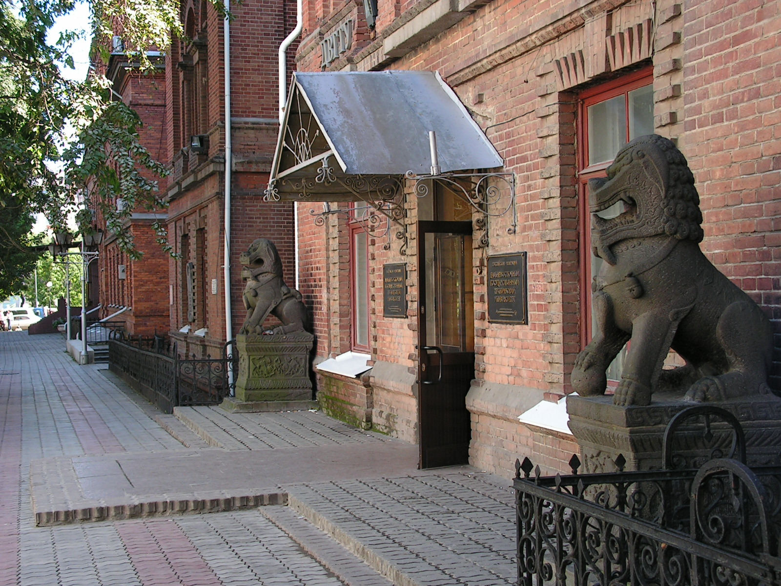 Chinese guardian lions near entrance of Far-Eastern State Technical University